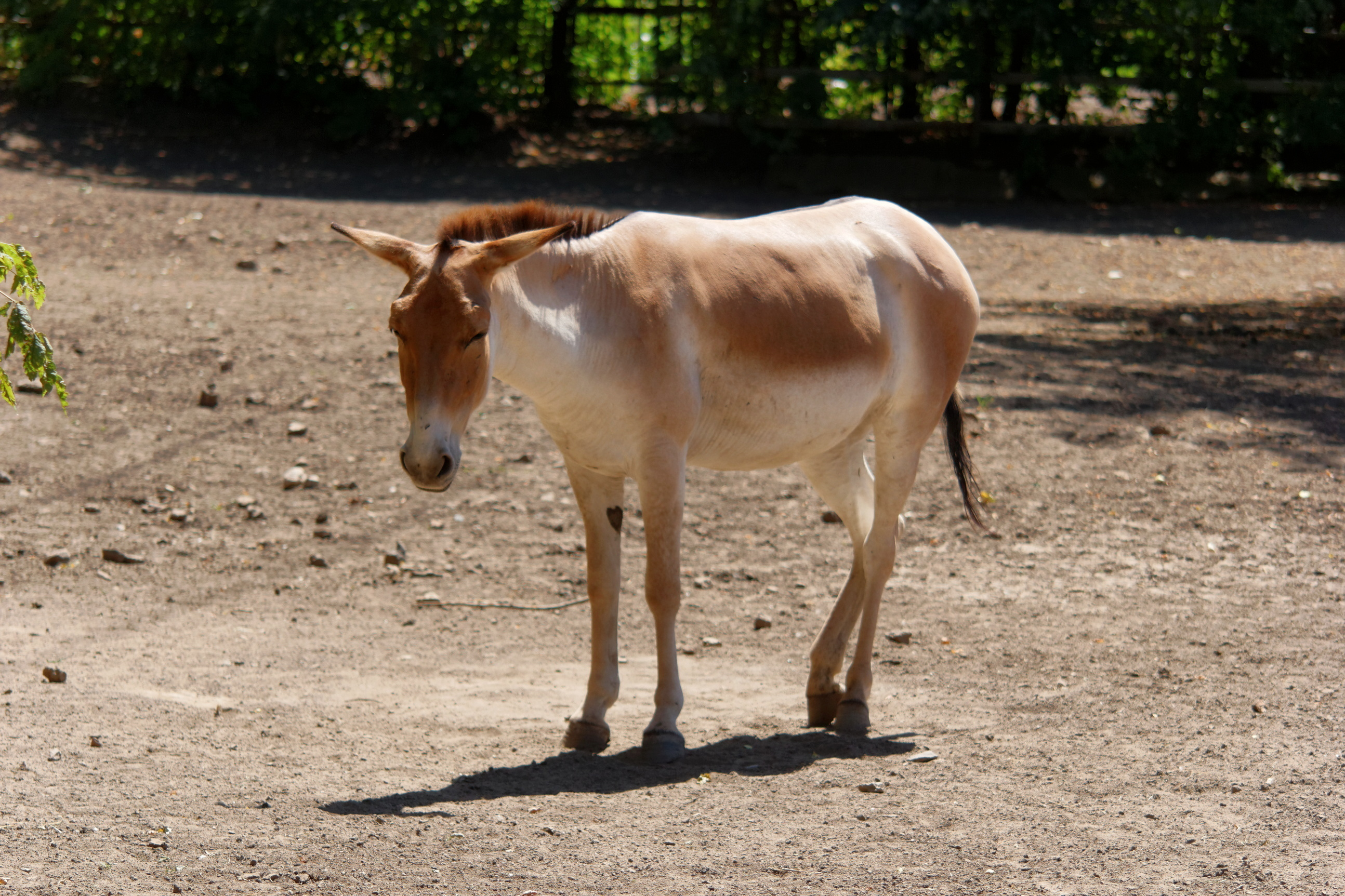 Rostov-on-Don Zoo. Persian onager (Equus hemionus onager)